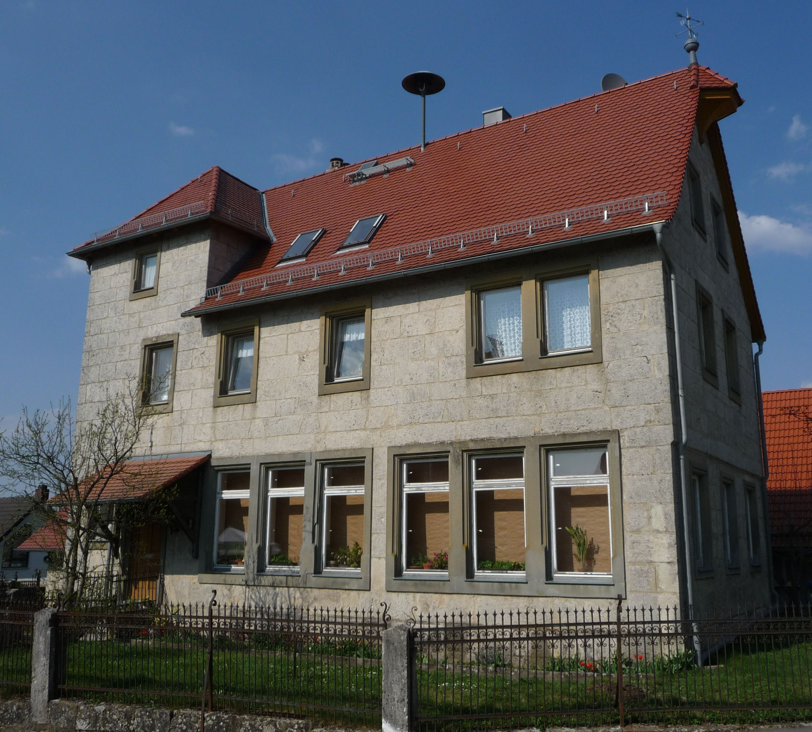 Kalteneggolsfeld, Landkreis Bamberg, Germany